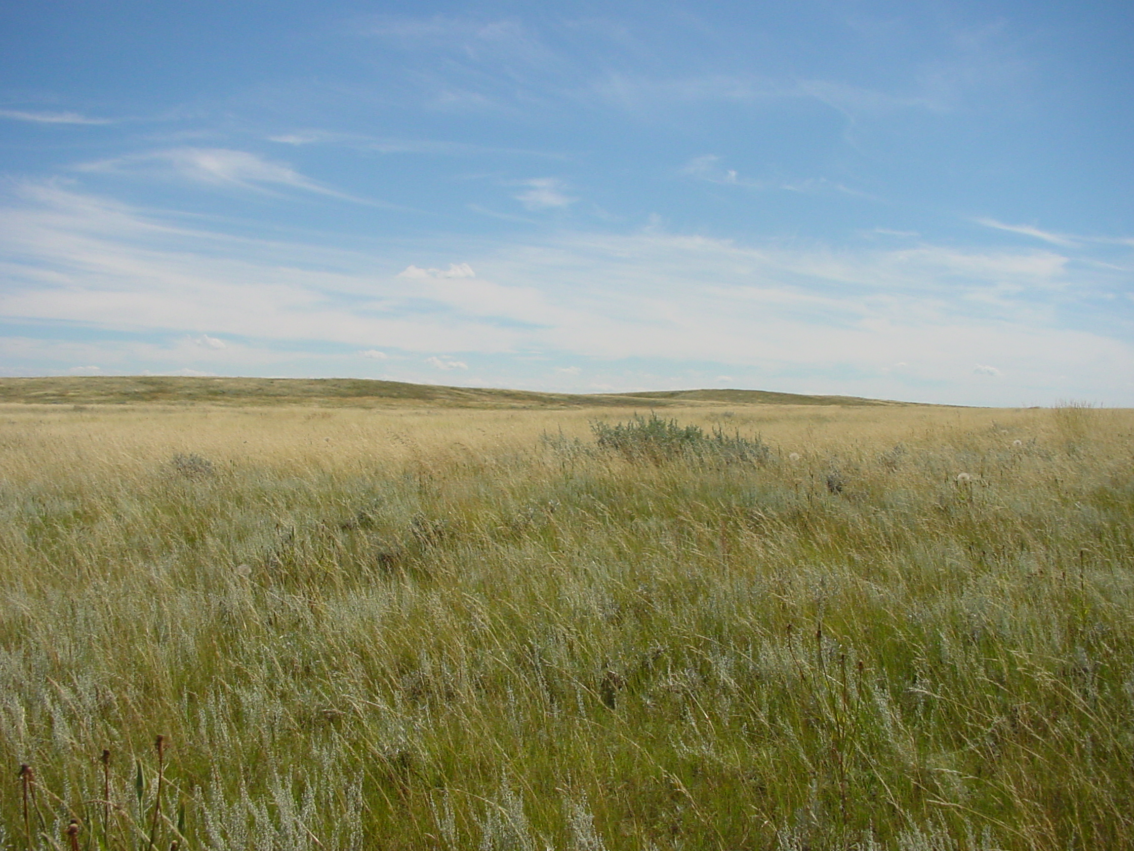 Recovered prairie SW of Brooks, Alberta